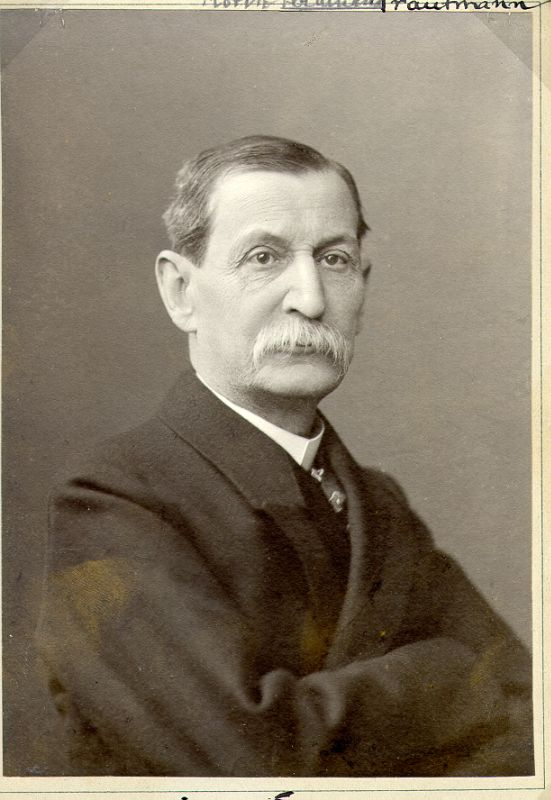 Moritz Trautmann